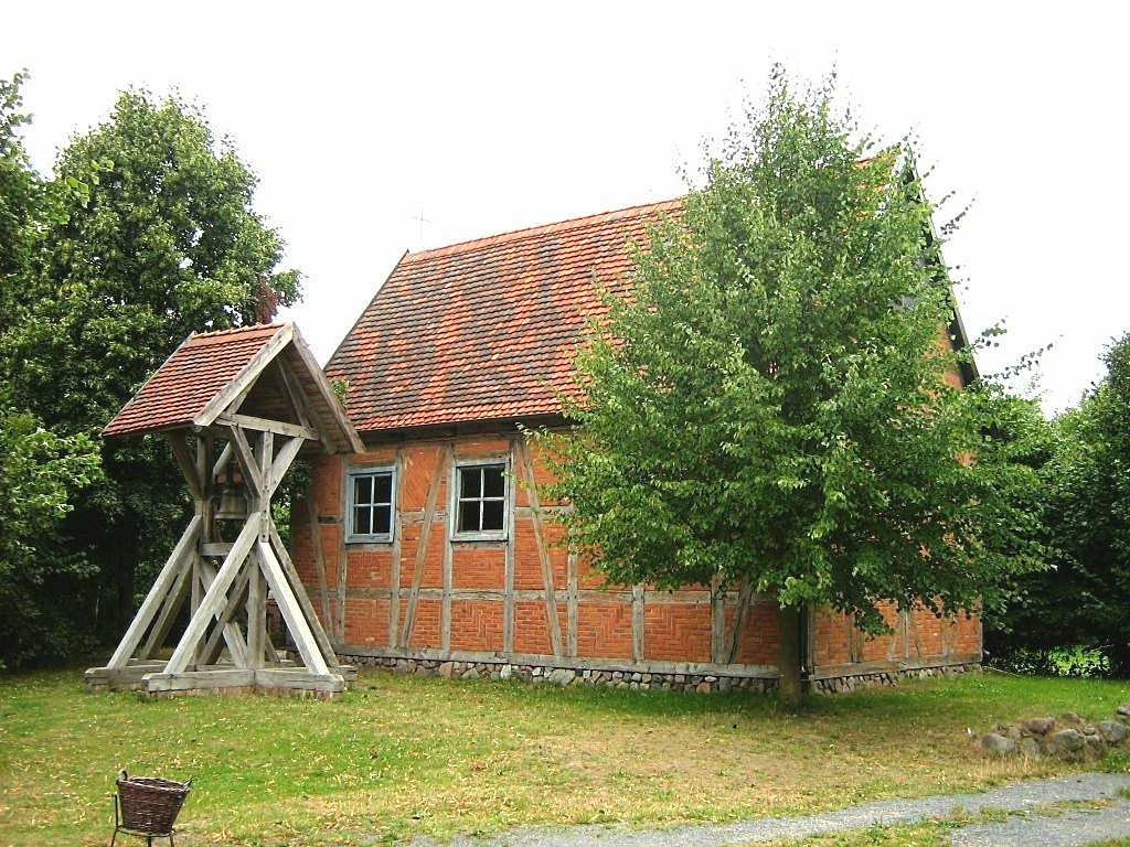 Church in the Museum in Klockenhagen, Ribnitz-Damgarten, Mecklenburg-Vorpommern, Germany